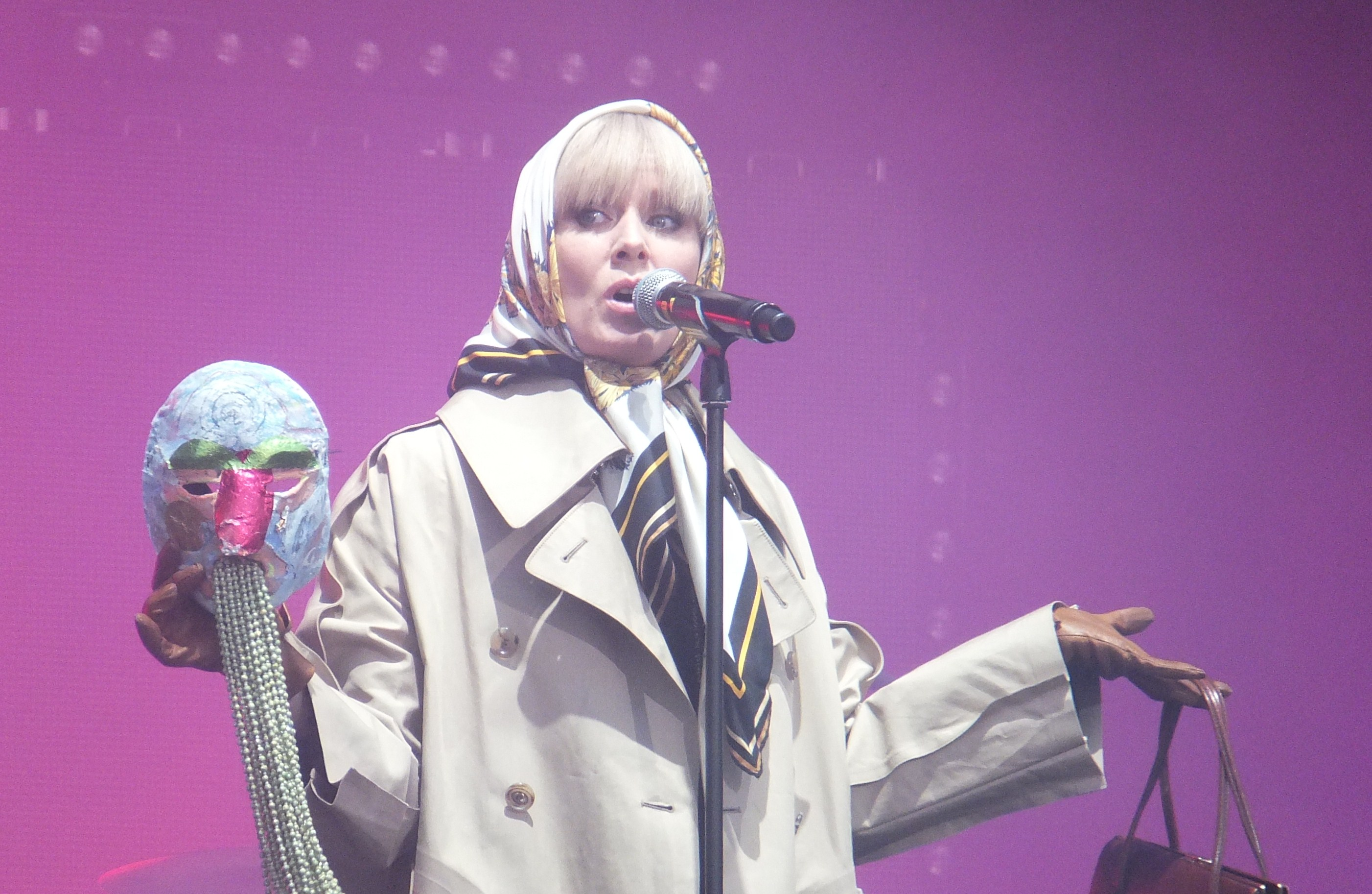 The Irish musician Róisín Murphy performing at the Flow Festival in Helsinki, August 2015.